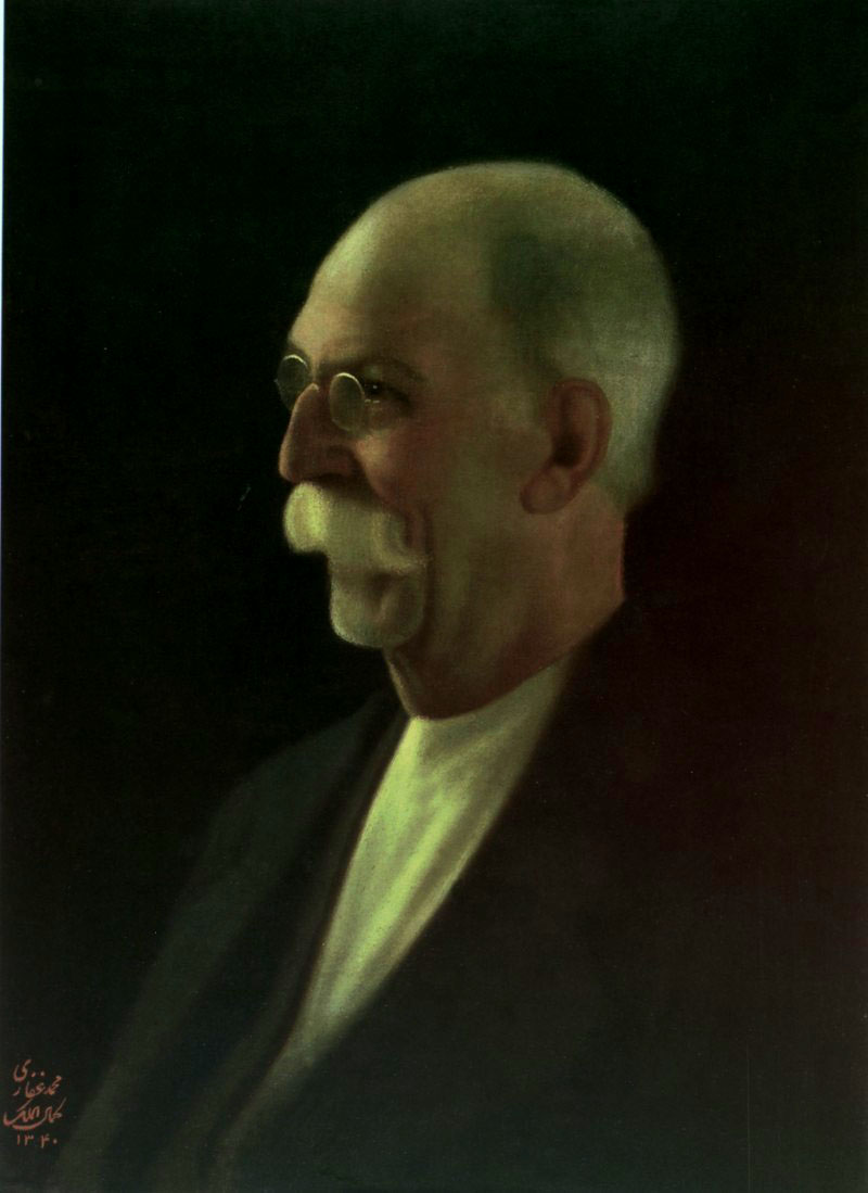 Kamal-ol-molk, Self painting